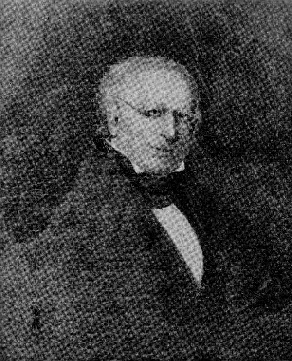 William Henry Brockenbrough (February 23, 1812 – January 28, 1850) was a US Representative from Florida.